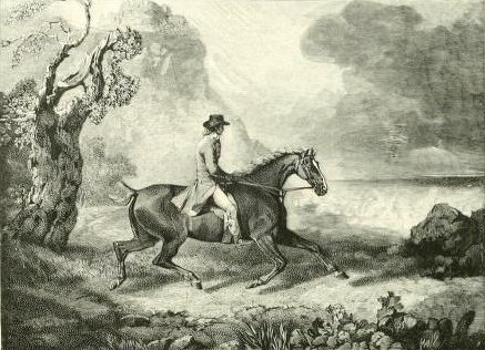 The Ninth Duke of Hamilton and Brandon on a Cover Hack (wood engraving)